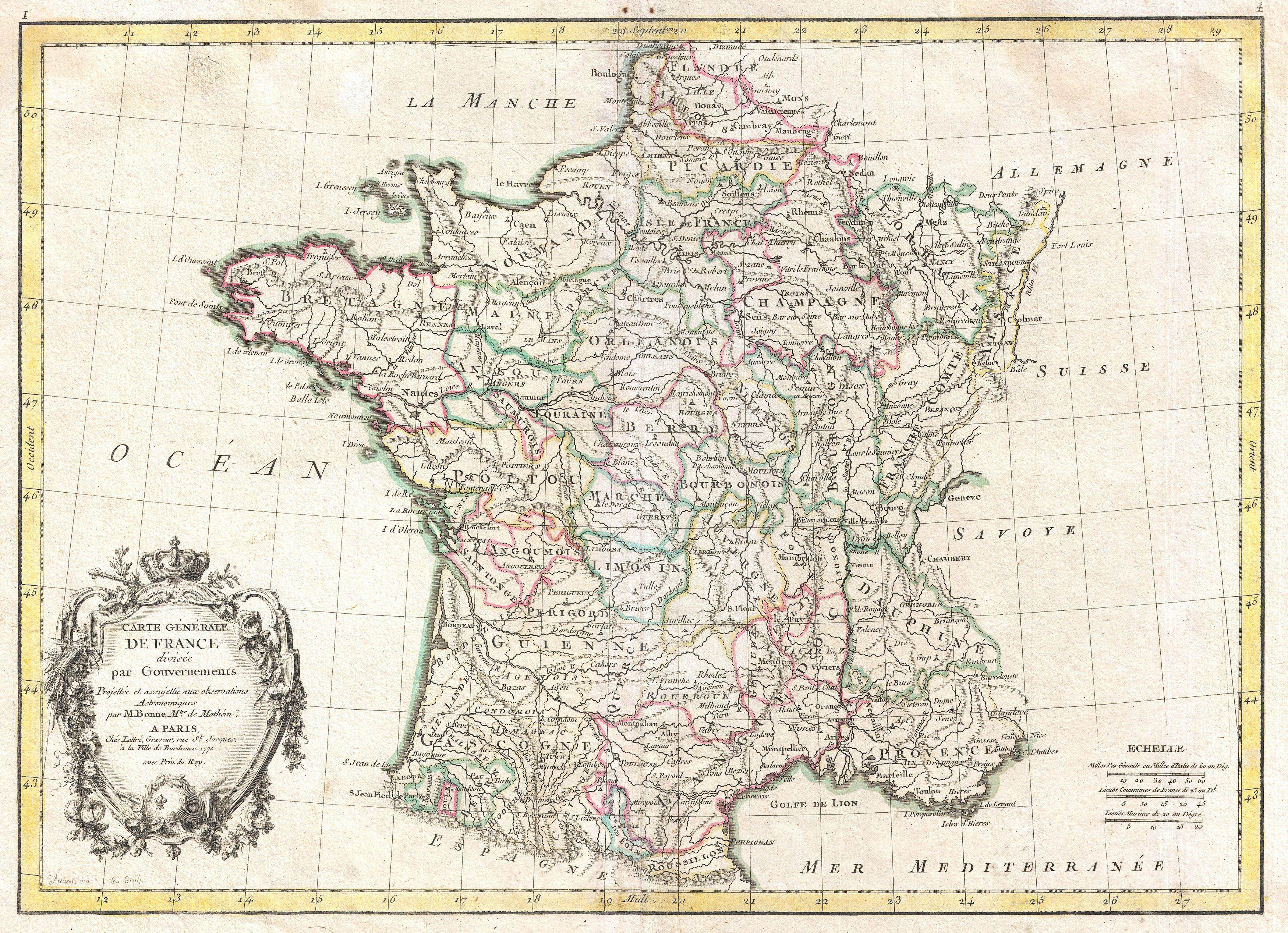 A beautiful example of Rigobert Bonne's decorative map of France. Covers the entirety of France from Spain to Germany and from the British Channel to the Mediterranean. Divided into provinces with color coding according to region. Offers excellent detail throughout showing mountains, rivers, forests, national boundaries, regional boundaries, forts, and cities. A large decorative title cartouche appears in the lower left quadrant. Drawn by Rigobert Bonne in 1771 for issue as plate no. 4 in Jean Lattre's 1776 edition of the Atlas Moderne .